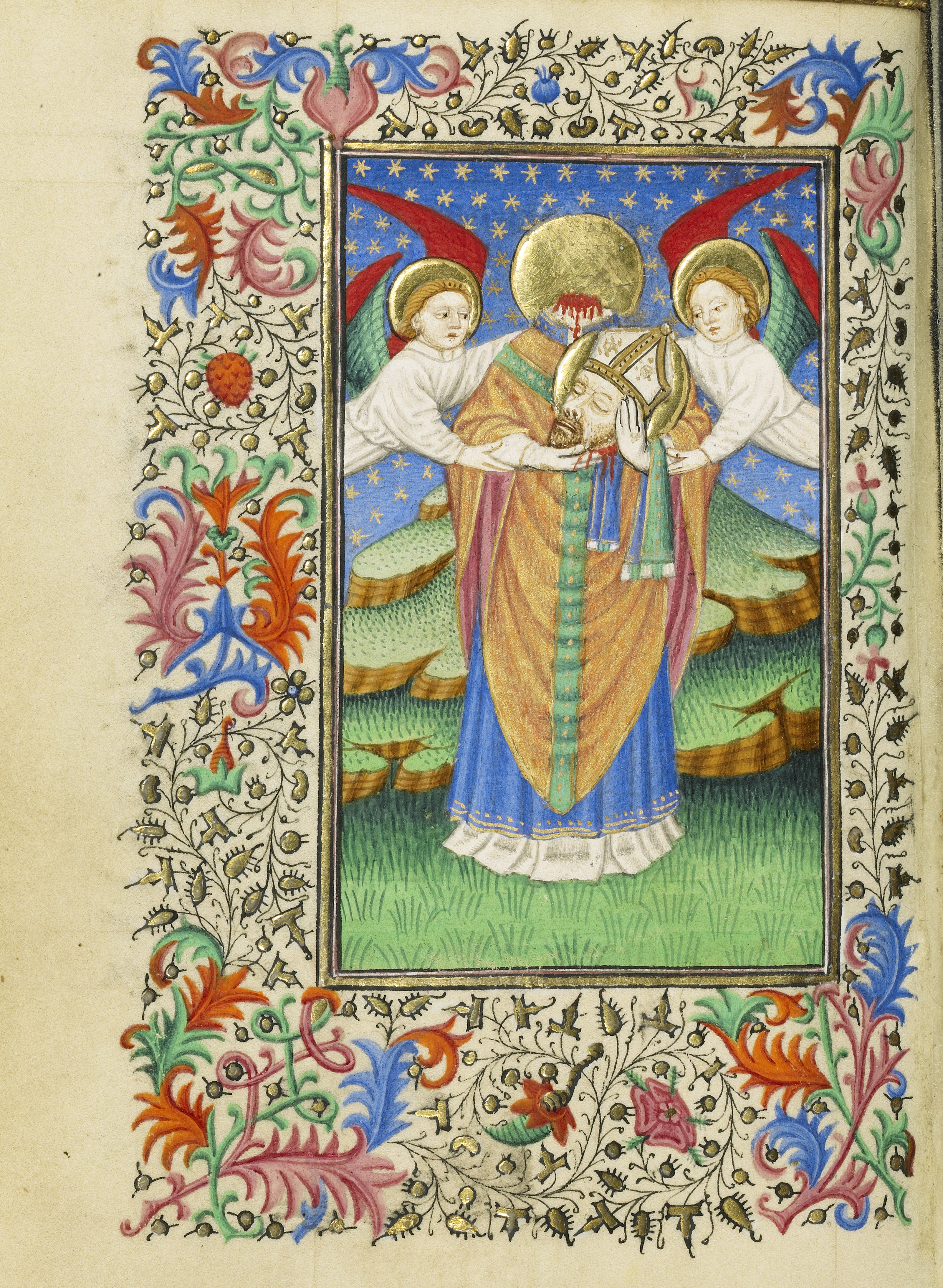 Saint Denis, the first bishop of Paris, was beheaded in that city in the year 250. According to legend, angels accompanied him as he carried his own head from the place of execution to his chosen burial site, where later the church of Saint Denis was built just outside of Paris. Dressed in his bishop's garments, the saint is depicted with two haloes--one behind his severed head and a second behind the stump of his neck. This feature reflects medieval notions about the incorruptibility of saintly remains--the body does not decompose after death. By including two haloes, the artist emphasizes Saint Denis's presence in each part of his body and the sanctity of his physical remains.